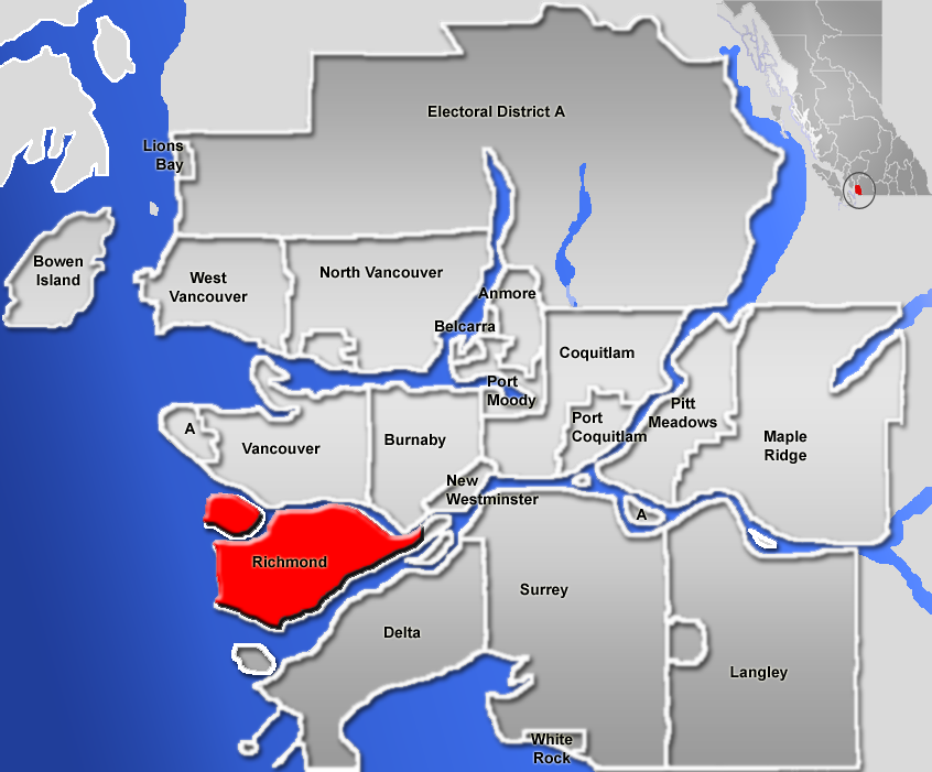 Location of Richmond, Greater Vancouver Area, British Columbia